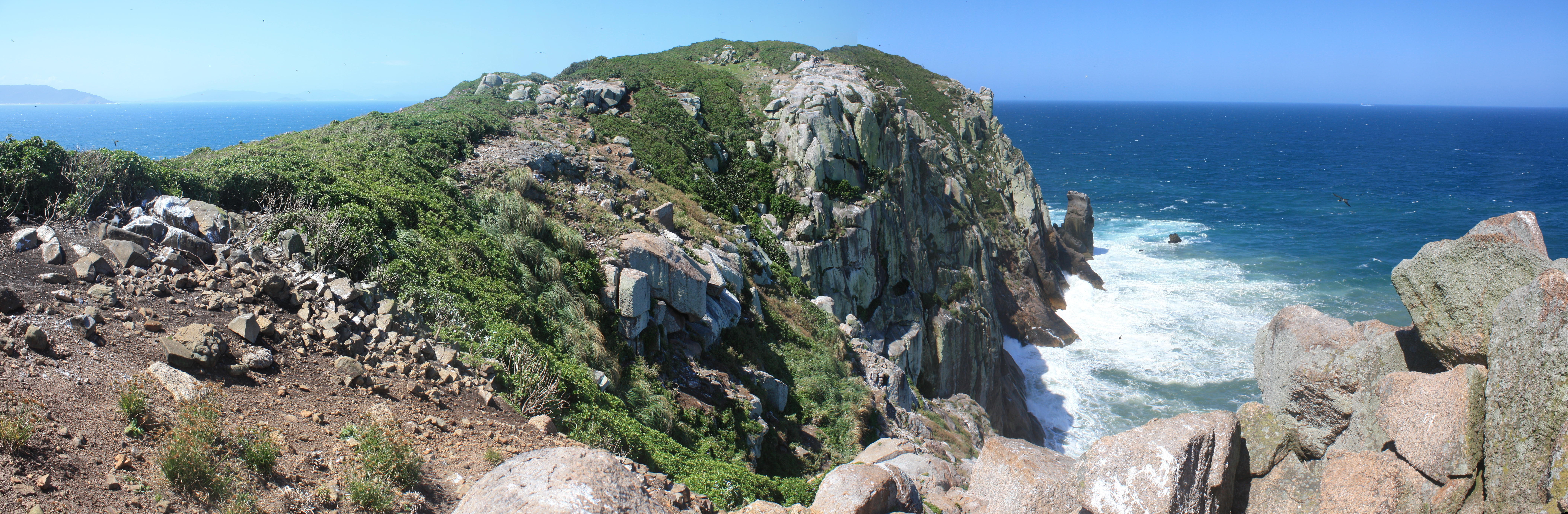 Islands of Moleques do Sul. An small archipelago in southern Brazil, in Santa Catarina state. Part of two protected areas, the 'Parque Estadual da Serra do Tabuleiro' and the protected are named as 'APA da Baleia Franca'.